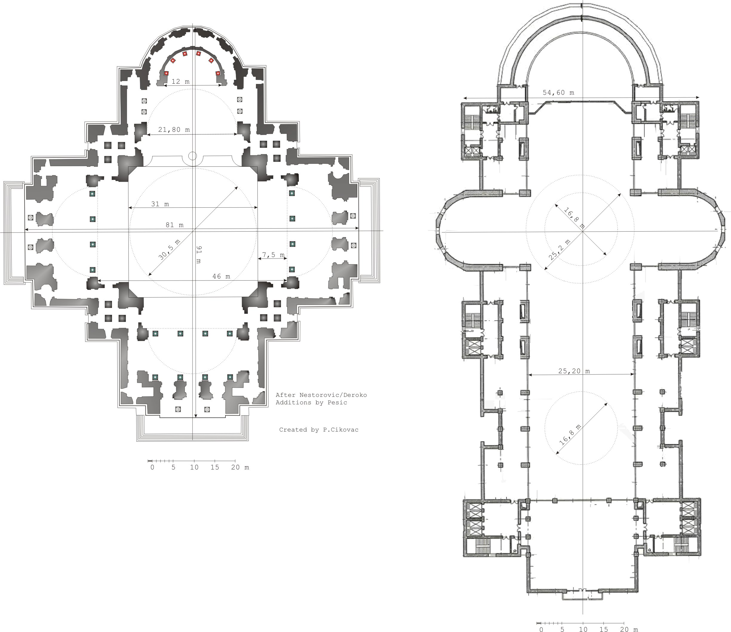 Sv. Sava comparacija Catedrala Mântuirii Neamului